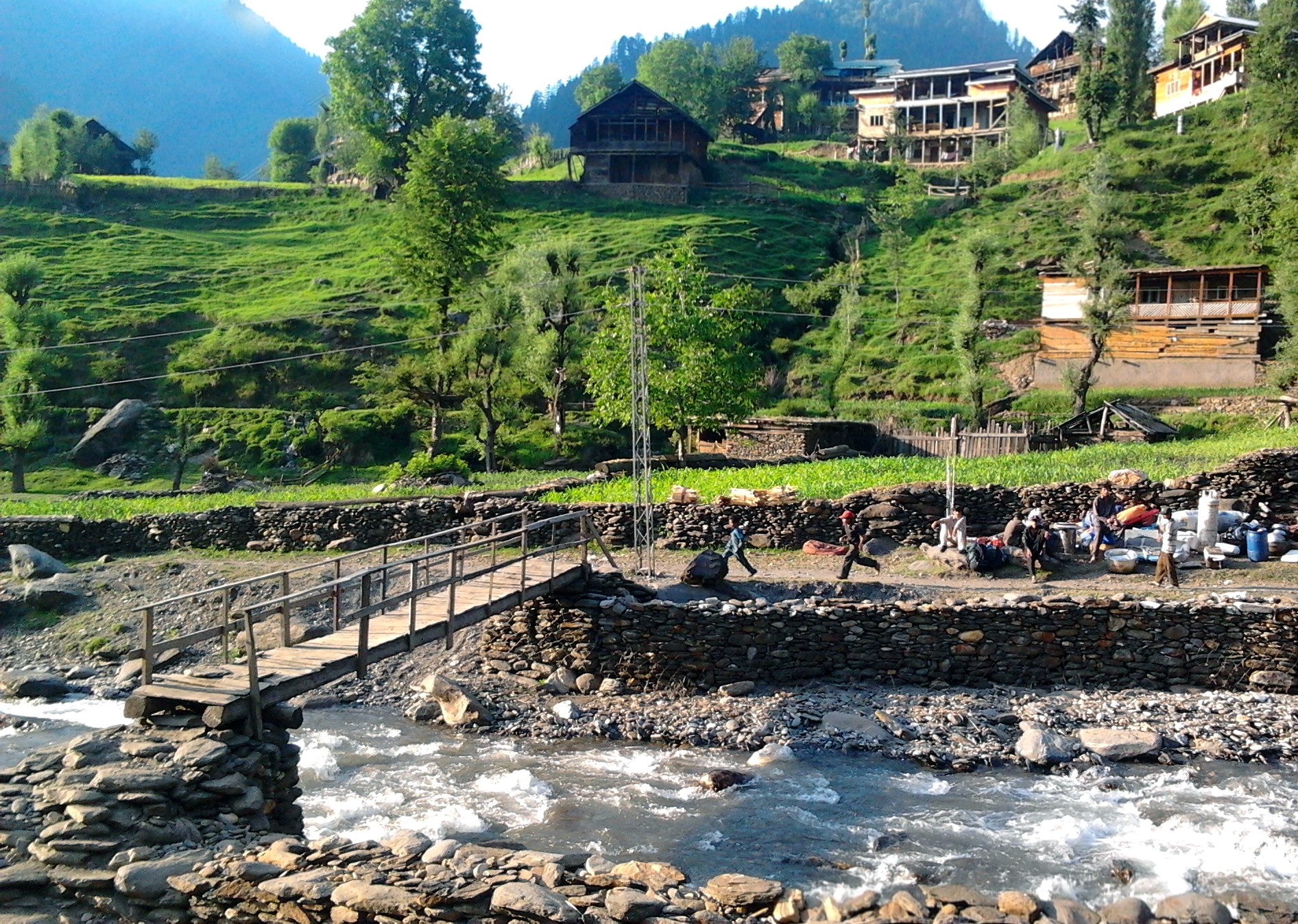 A beautiful view of a wooden bridge over a tributary of Neelum River in Sharda, Azad Kashmir, Pakistan